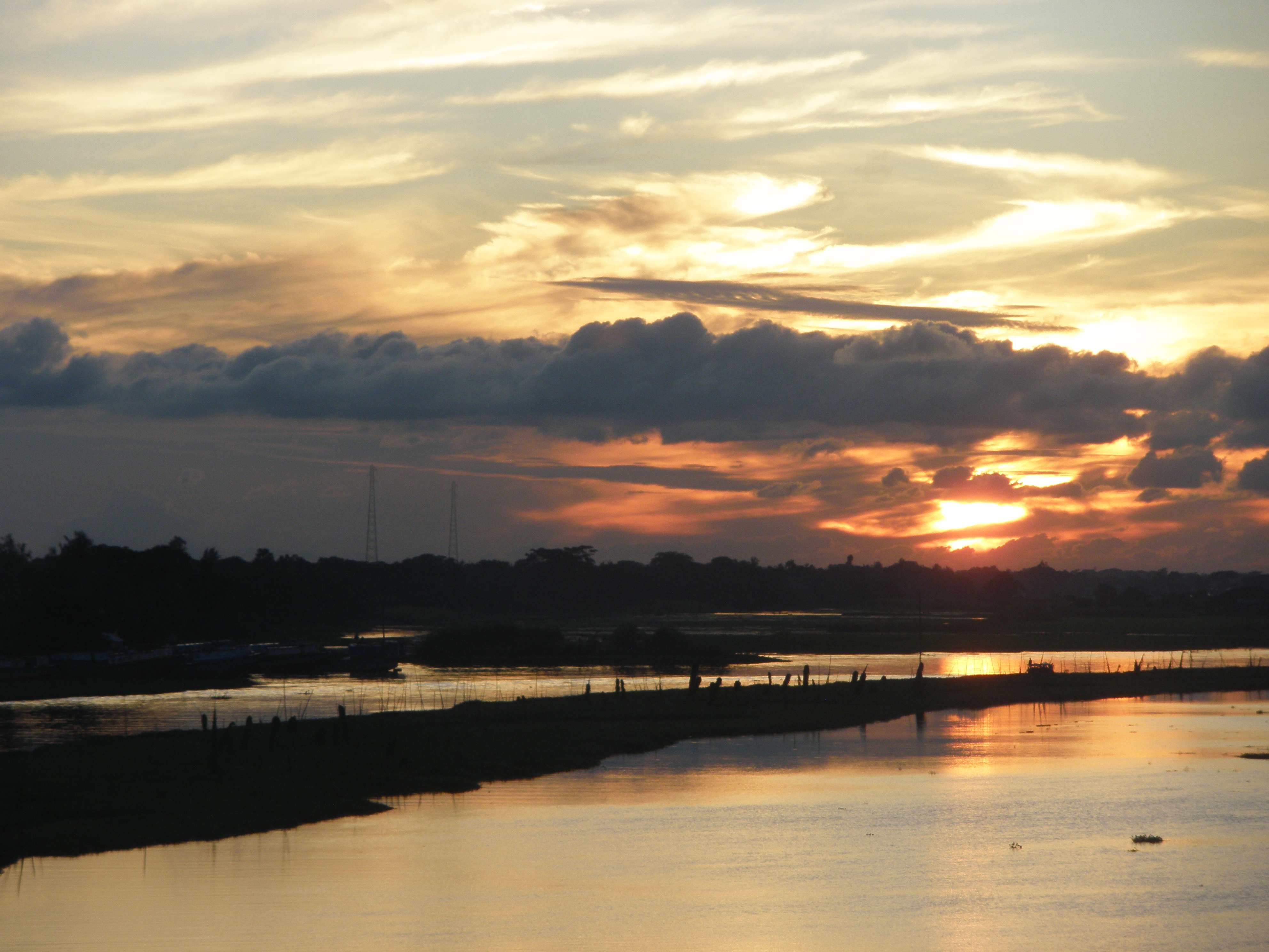 The River is in Homna, Comilla, Bangladesh